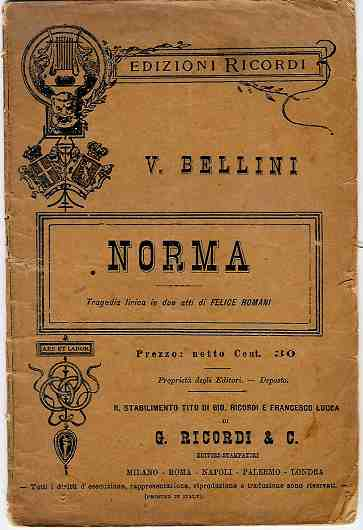 Cover of the 1891 libretto of Norma by Vincenzo Bellini.